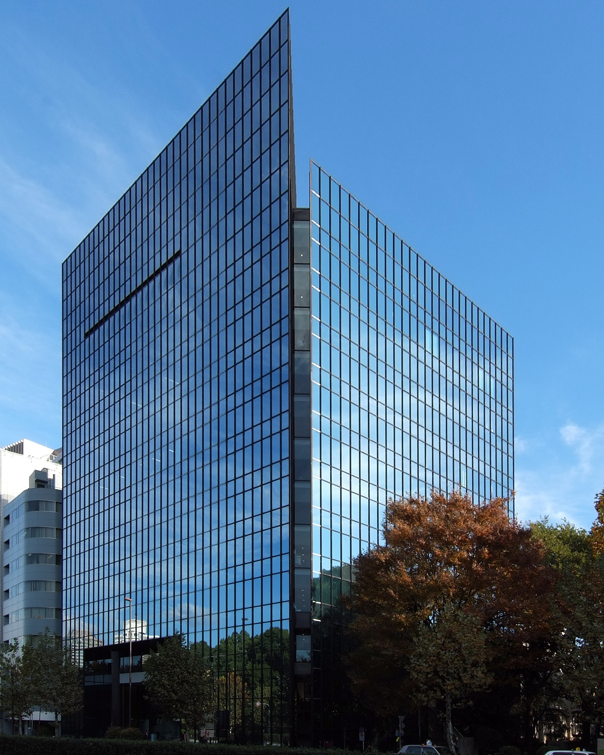 Sogetsu Hall and Office, at Akasaka Tokyo Japan. Design by Kenzo Tange in 1977.